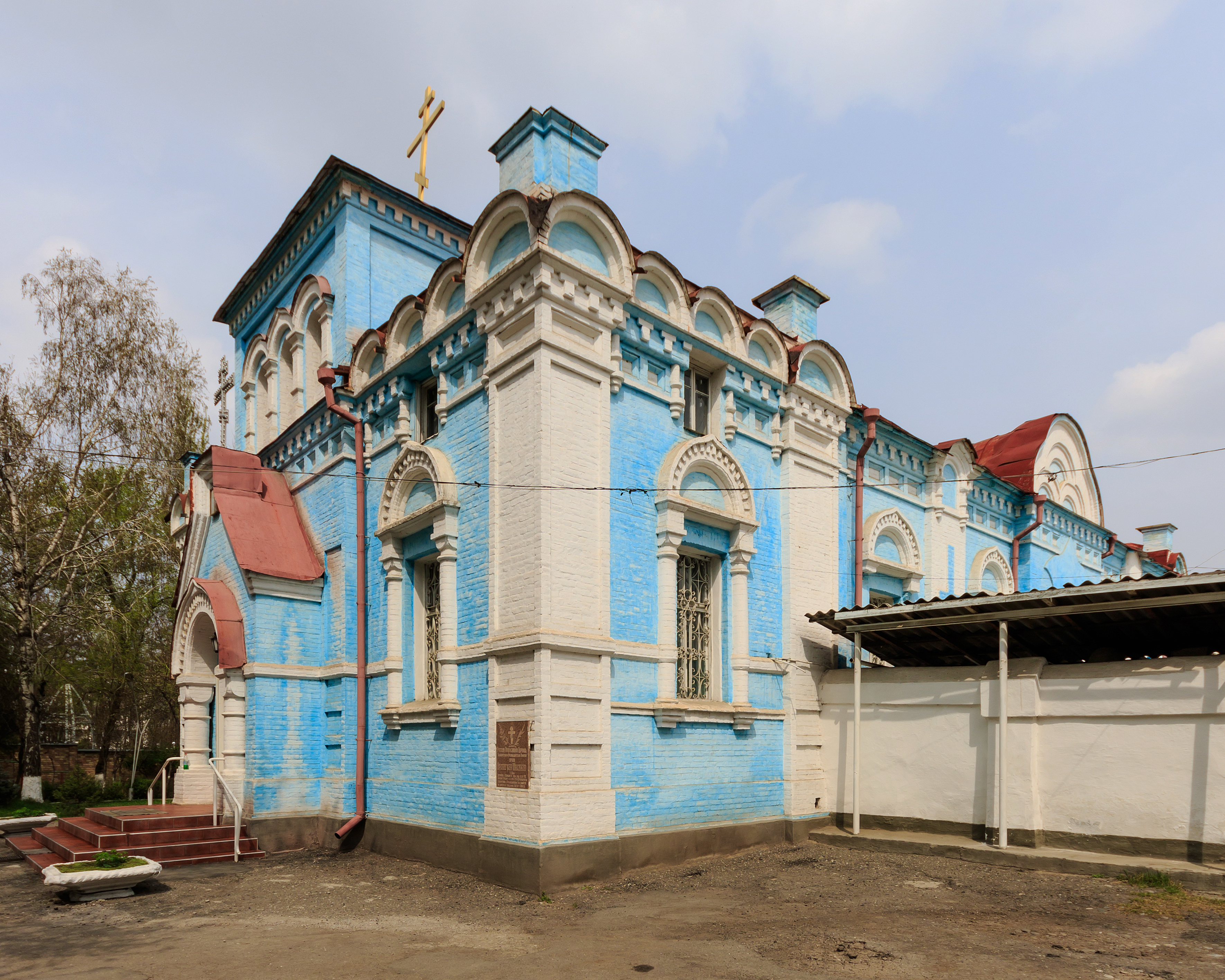 Russian Orthodox Church of Archangel Michael in Osh, Kyrgyzstan